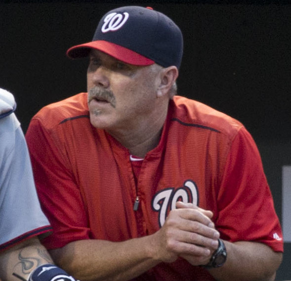 The Washington Nationals dugout during a 2015 game at Camden Yards in Baltimore.